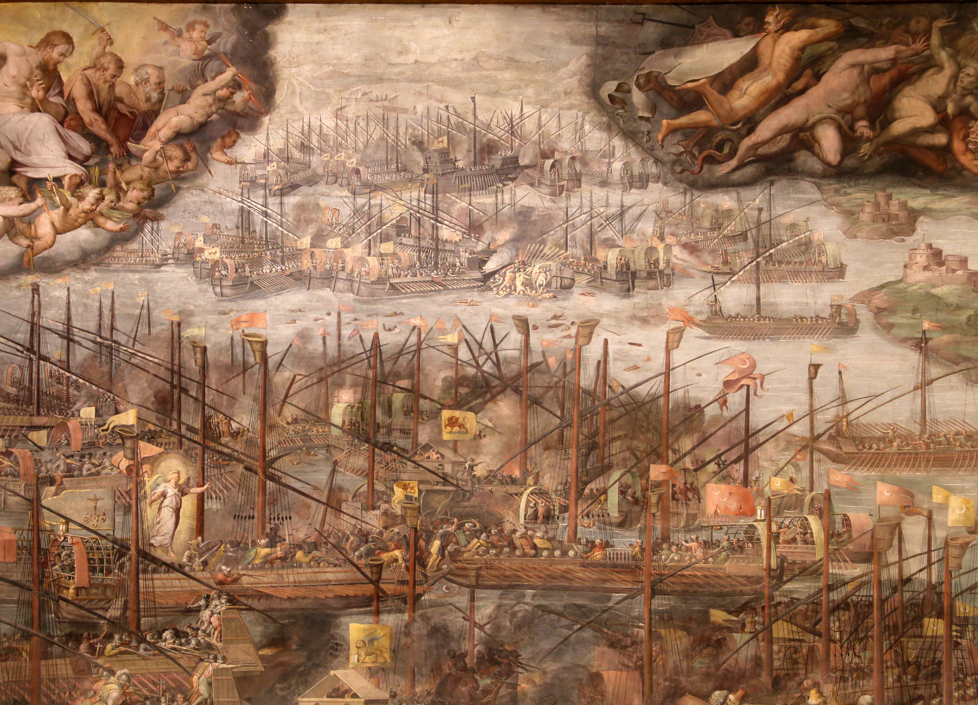 Sala Regia - Frescos by Giorgio Vasari and workshop